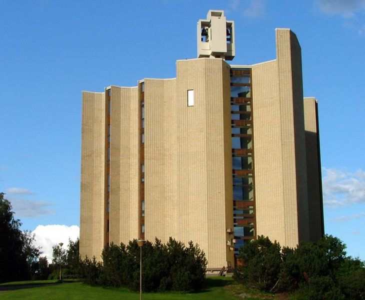 Kaleva Church in Tampere, Finland, designed by architects Raili and Reima Pietilä.